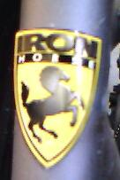 Head badge of an Iron Horse bicycle taken by Andrew Dressel